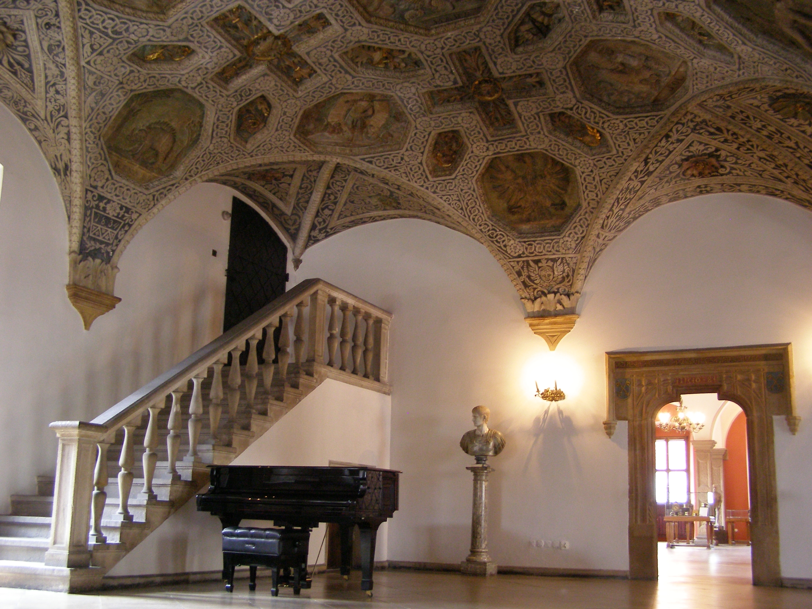 Poznań - Museum of the History of the City in the Town Hall - The Great Hall